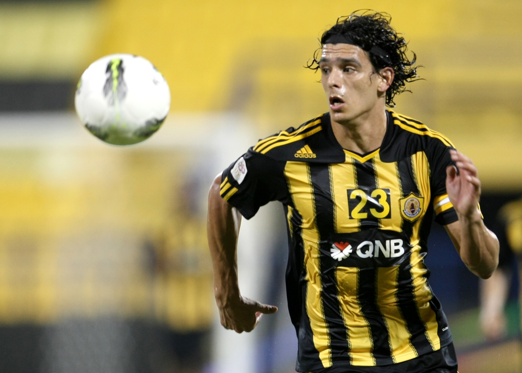 Qatar SC's Sebastián Soria controls the ball during a Qatar Stars League match. Pic by Mohan